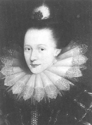 Countess Emilia of Nassau